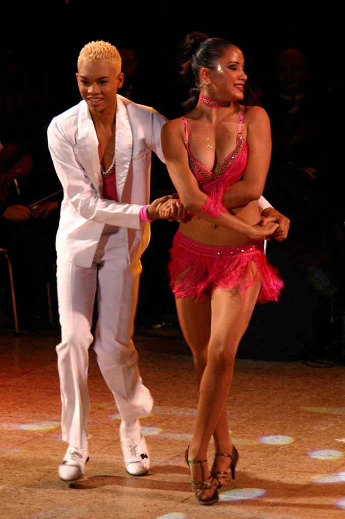 Reevolution XIII Cali´s International Art Festival, October 2007